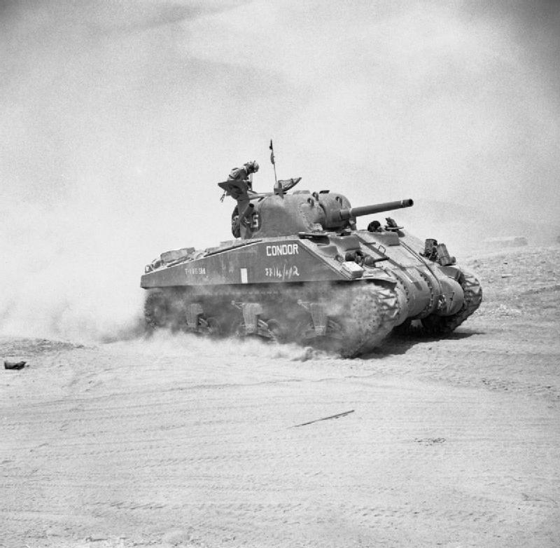 A British Sherman tank advancing near Catania, Sicily, 4 August 1943. A Sherman tank moving at speed near Catania, 4 August 1943.